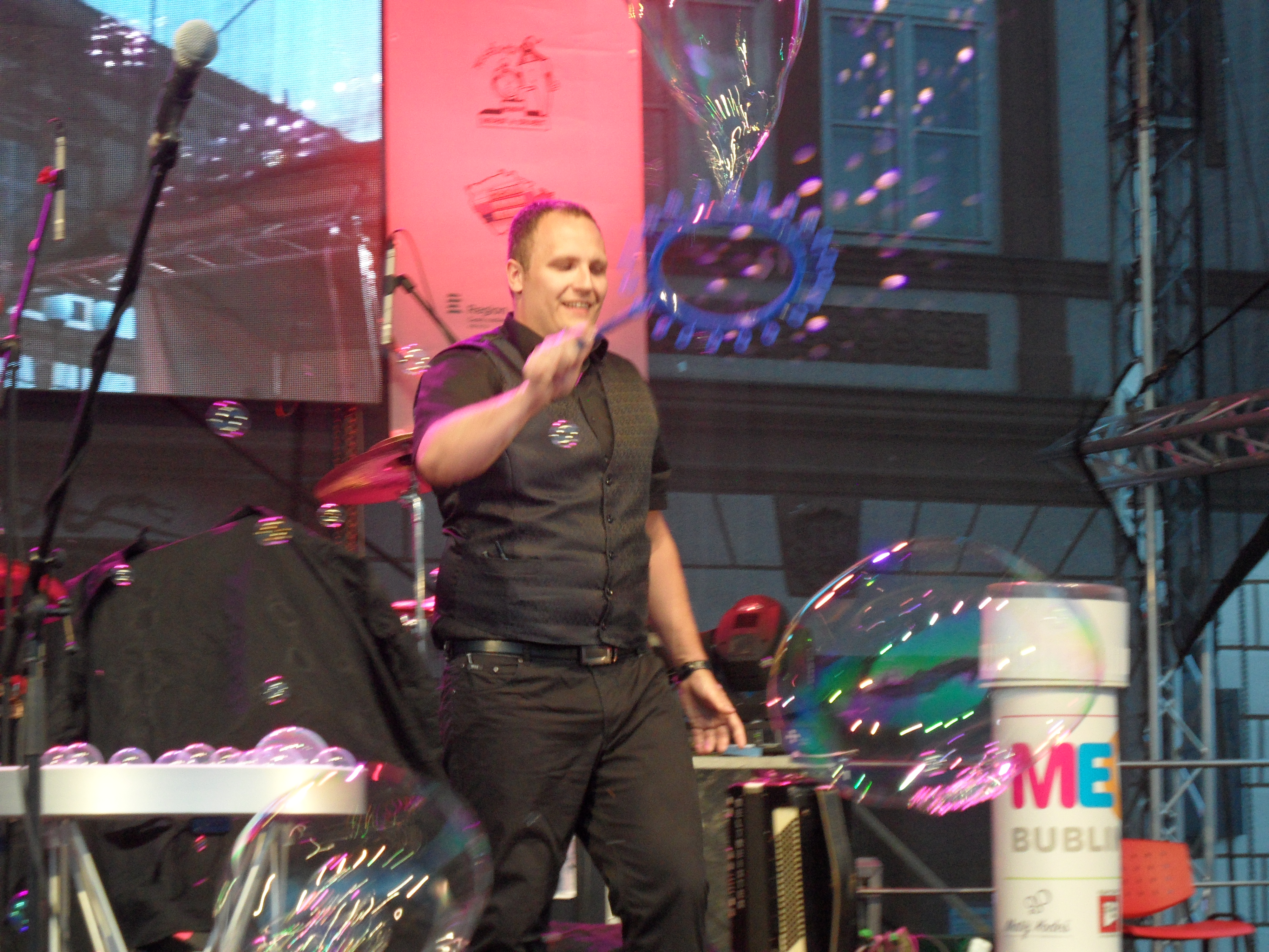 Festival Pelhřimov – the City of Records 2017, Evening Programme: Bubble Show of World Champion Matěj Kodeš. Pelhřimov District, the Czech Republic.